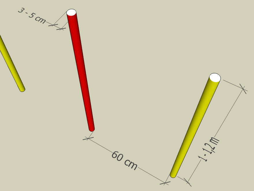 agility slalom measurement (dog sports)